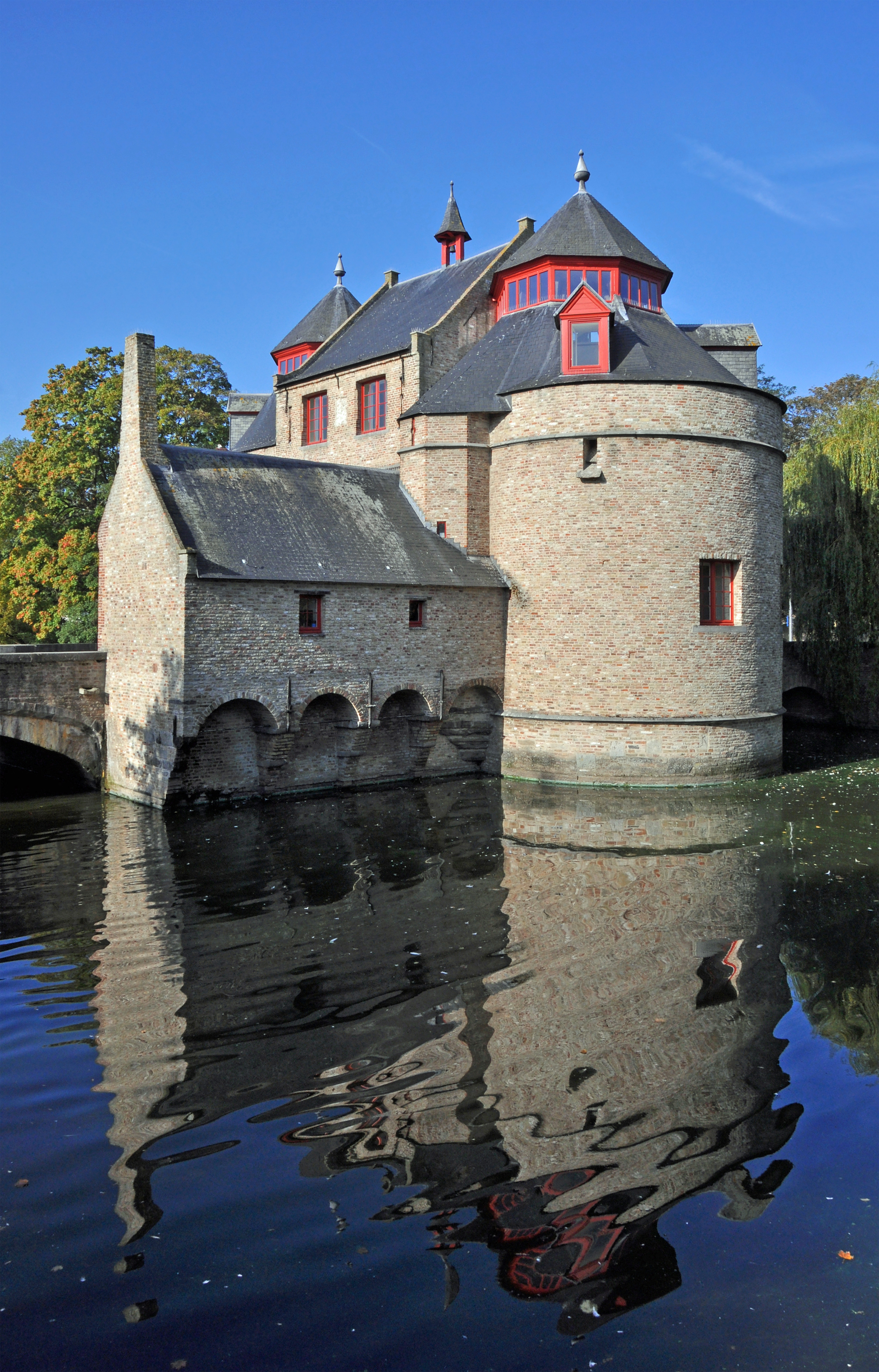 Bruges (Belgium): Ezelpoort (gate)